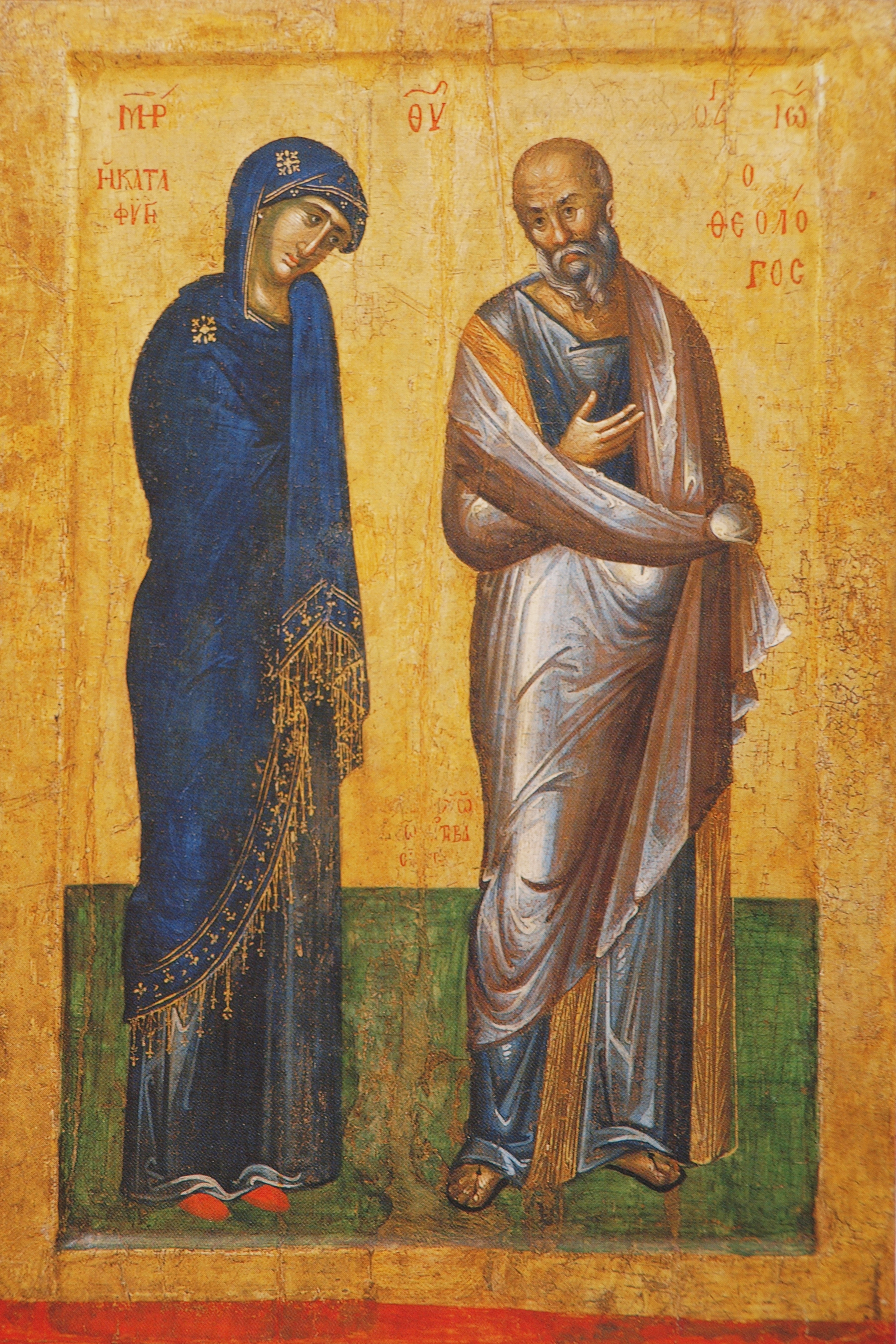 Poganovo icon (avers), late 14th century